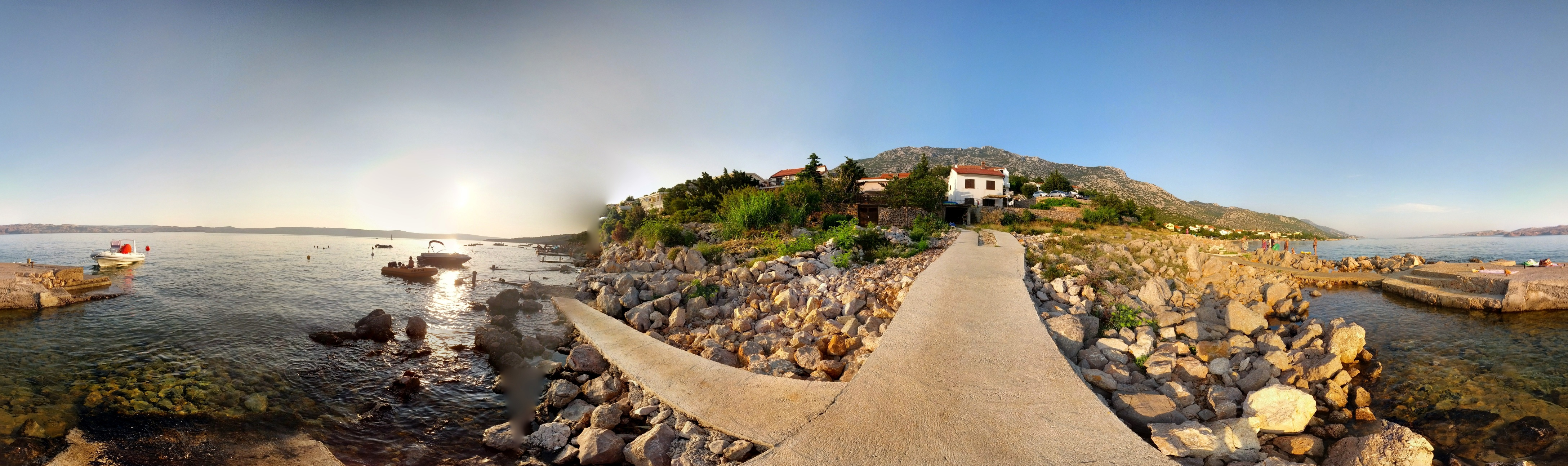 Town Ribarica, near Karlobag, Croatia.